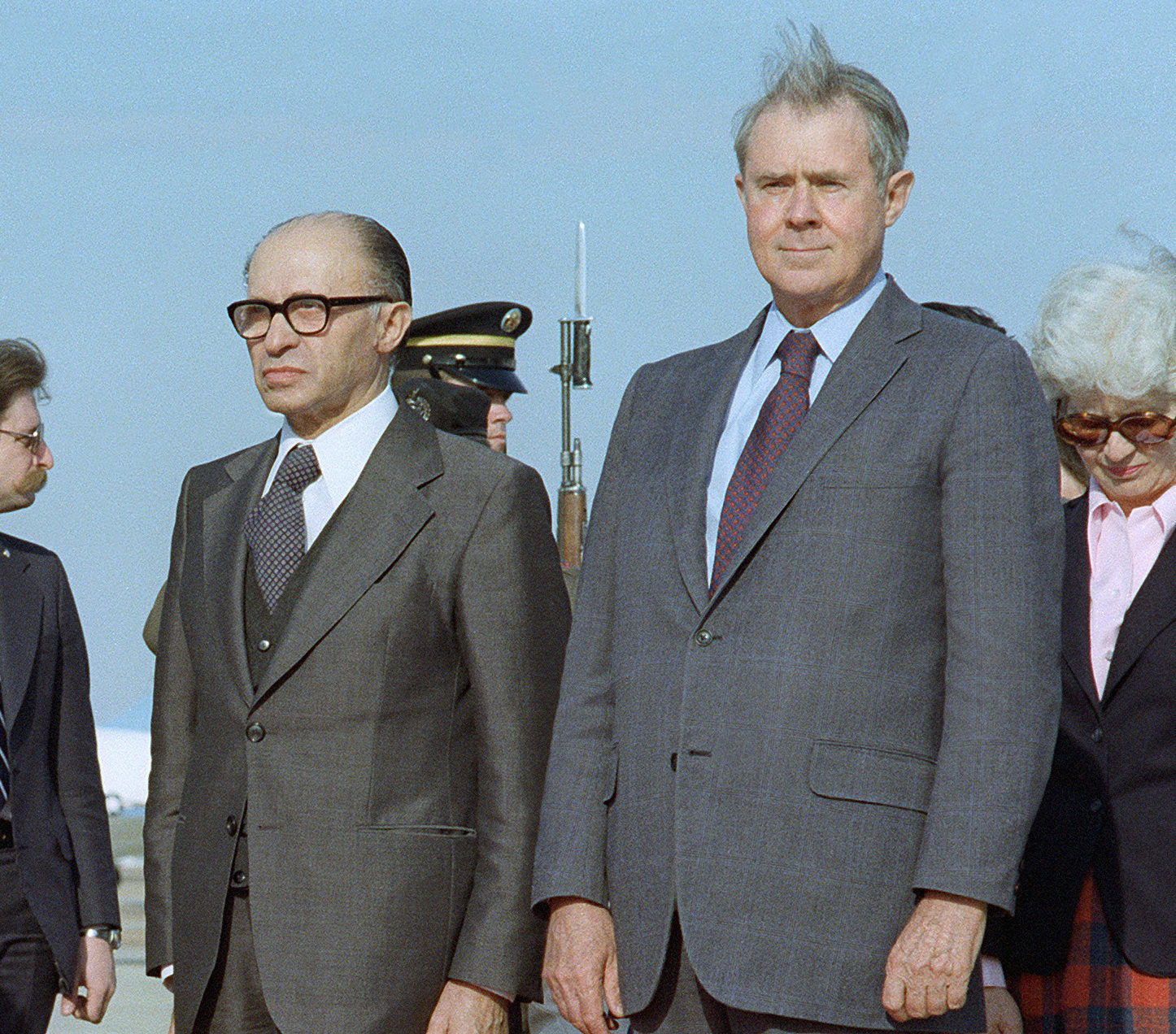 Israeli Prime Minister Menachem Begin (third from right) and Secretary of State Cyrus R. Vance (second from right) stand at attention while official military honors recognize the arrival of the Prime Minister and members of his party. Location: ANDREWS AIR FORCE BASE, MARYLAND (MD) UNITED STATES OF AMERICA (USA)